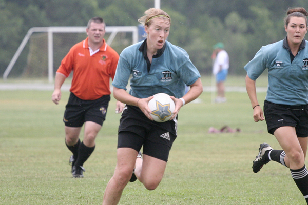 Kirsten Ahrendt - Atlantis (u-23's) vs. USA Rugby South All-Stars - rugby à sept féminin aux Etats-Unis d'Amérique - rugby union seven in the United States